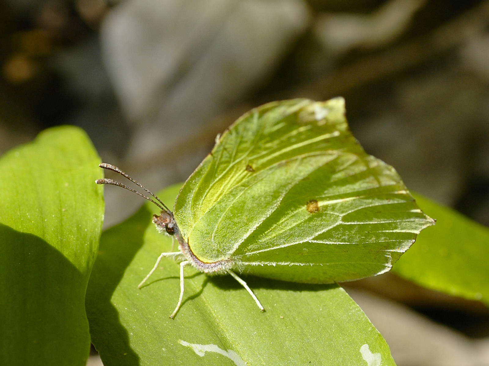 Insect with camouflageYellow Bird